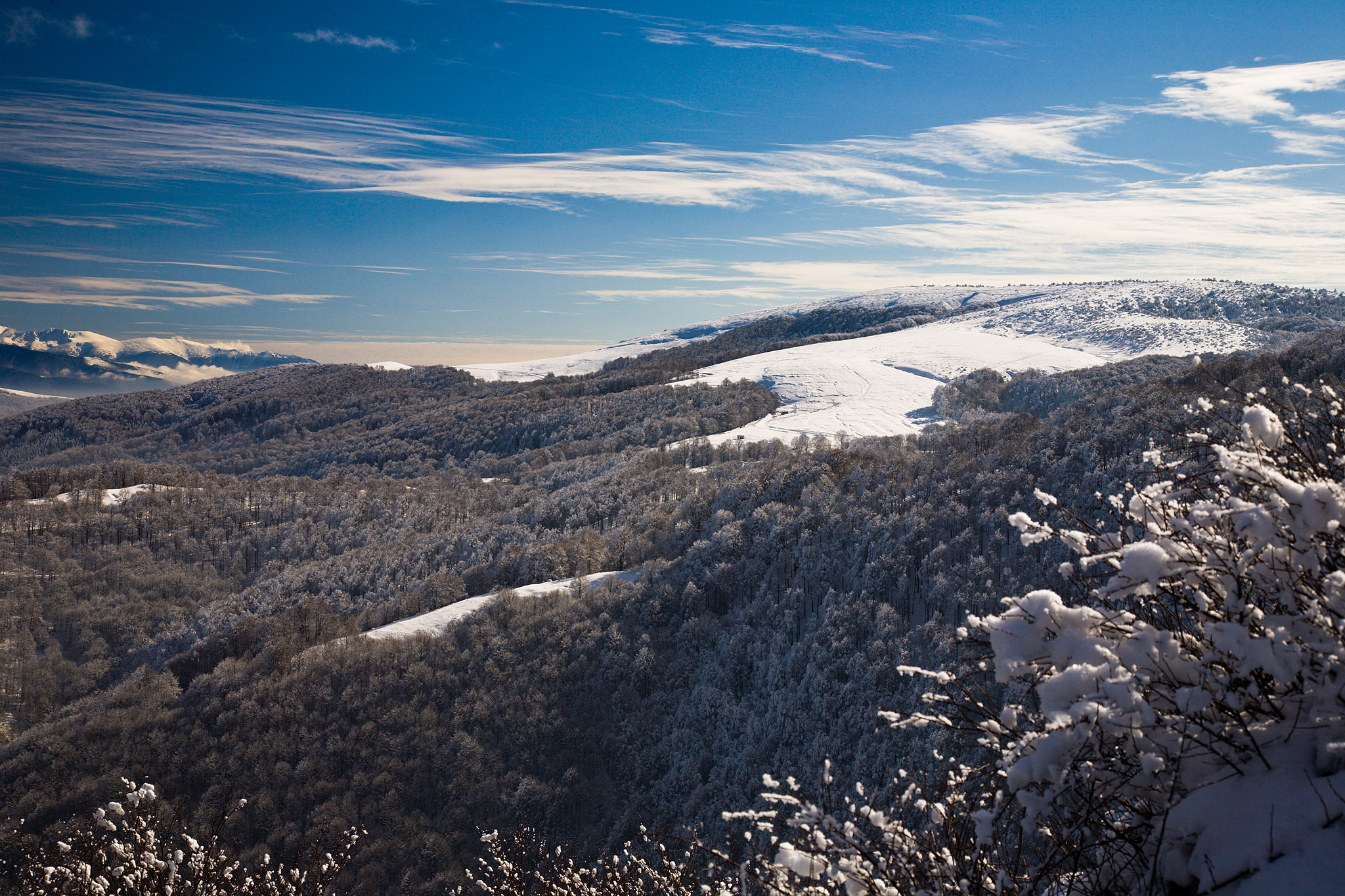 Dzhama peak - summit of Maleshevski mountains in Bulgaria